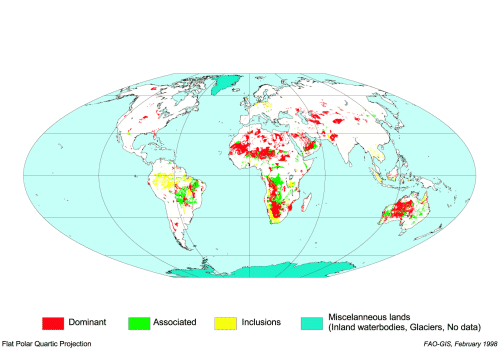 arenosol distribution